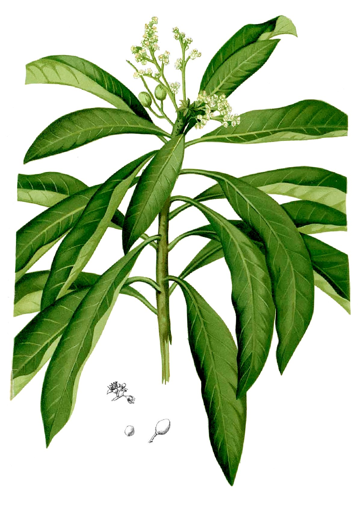 Plate from book